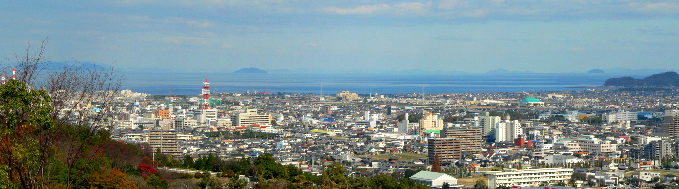 View of Niihama city.